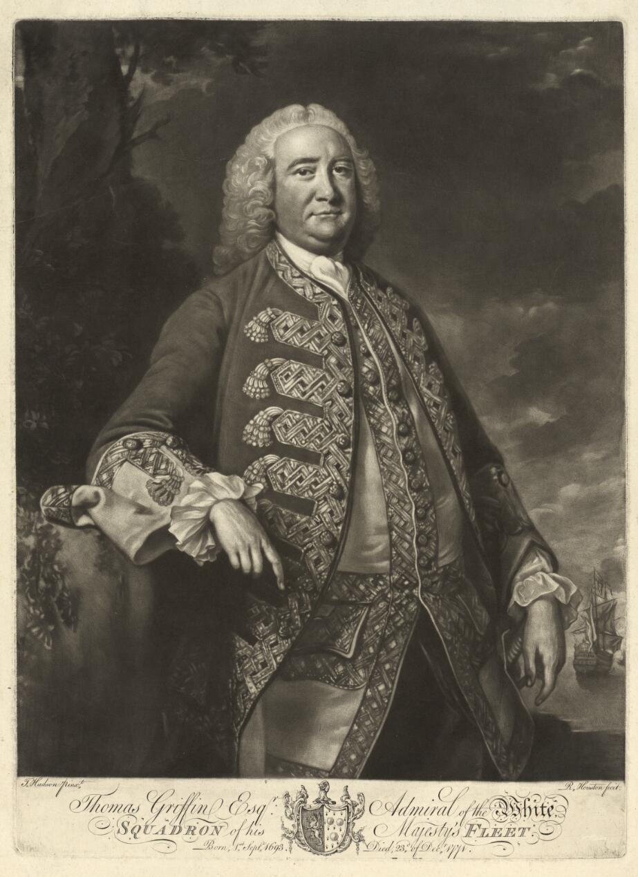 A portrait from the Welsh Portrait Collection at the National Library of Wales. Depicted person: Thomas Griffin – British Royal Navy officer